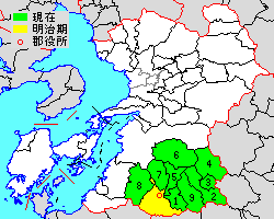 The location of Kuma_District in Kumamoto Prefectuur, Japan